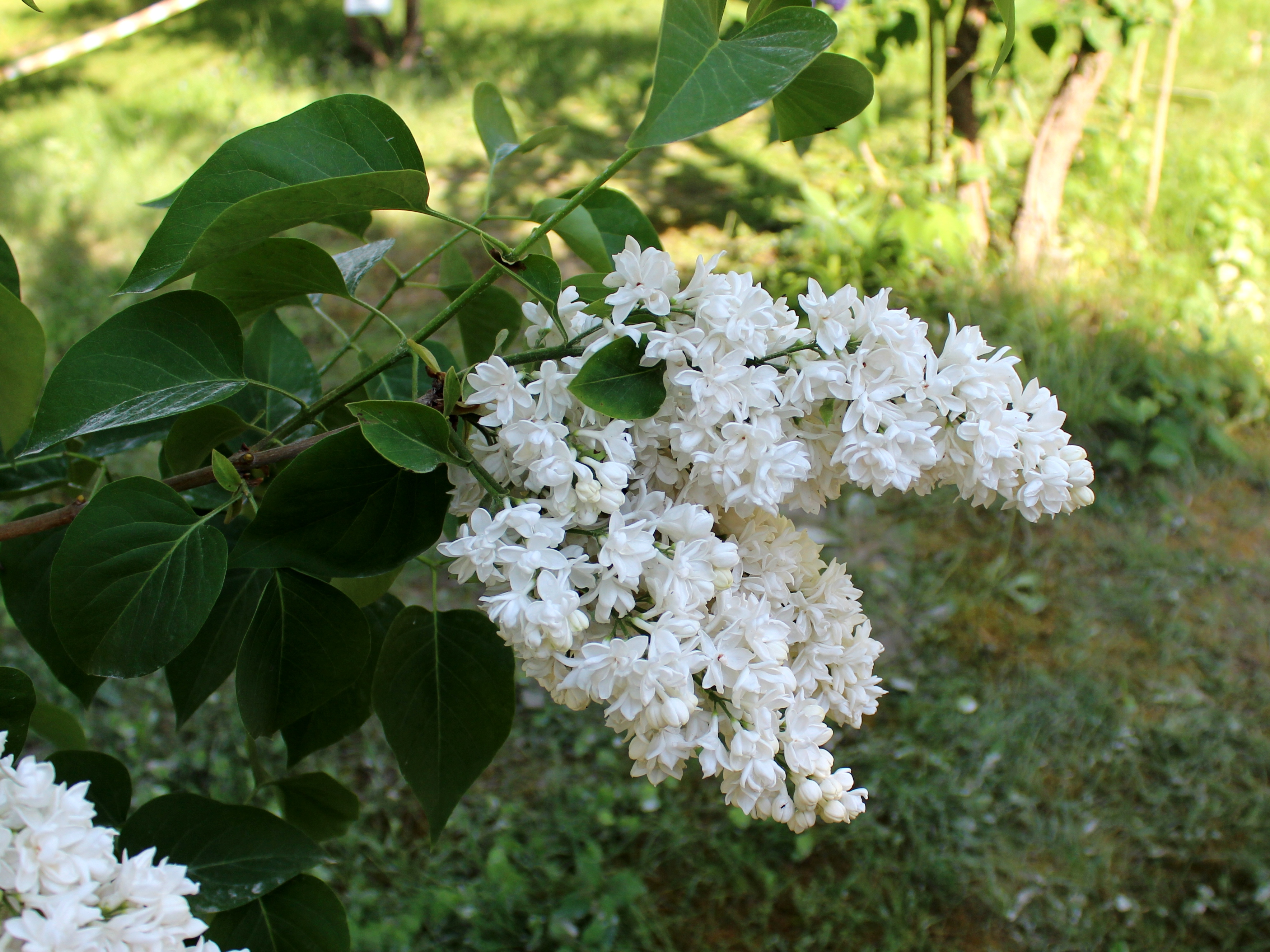 Syringa 'Mme Lemoine'. The Botanical Garden of the University of Latvia